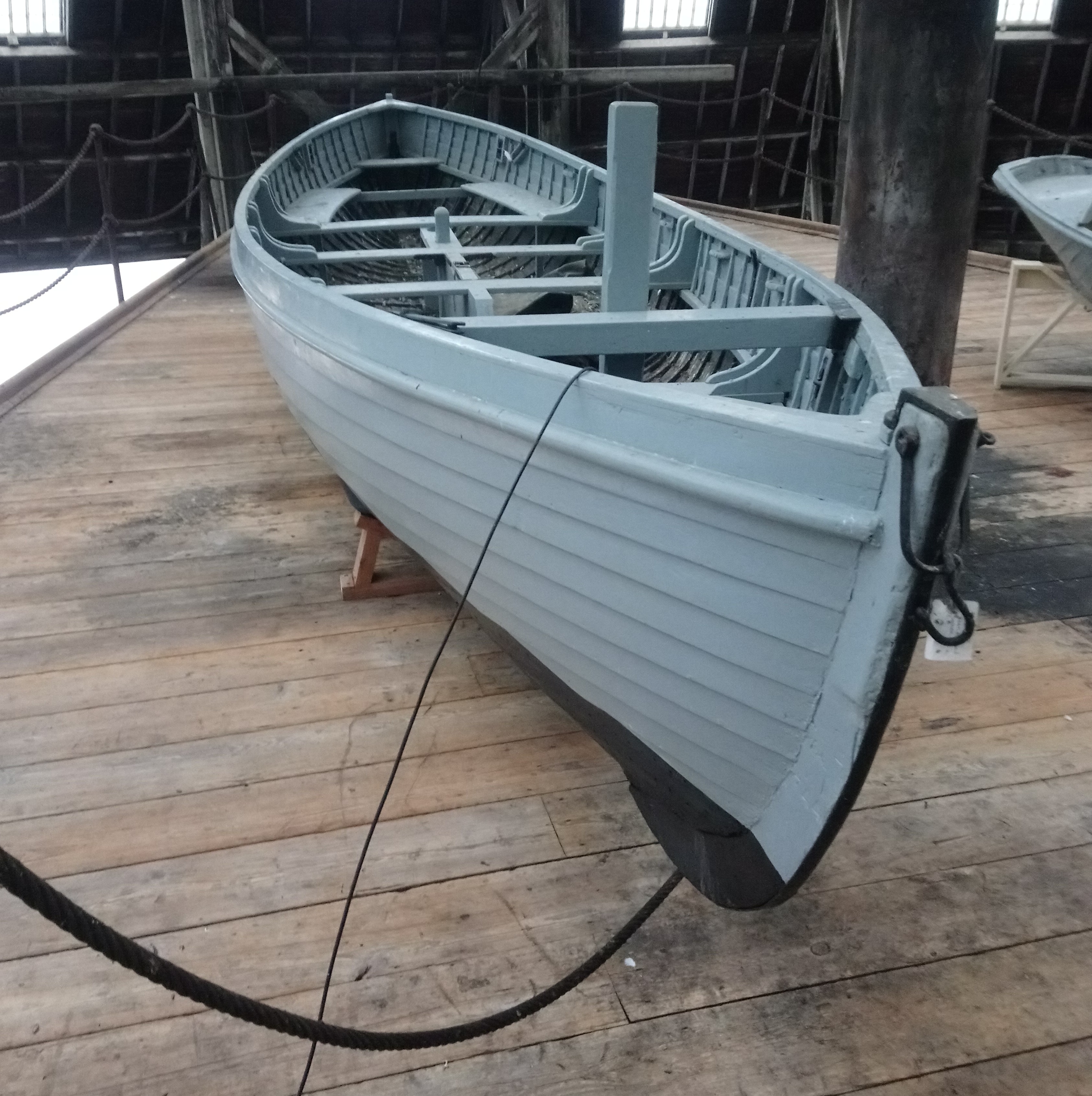 ThisMontagu whaler is displayed on the mezzanine floor of No. 2 Slip at Chatham Historic Dockyard in 2020. A 27' naval whaler was an open clinker built boat that could perform under sail or by rowing. A Montagu whaler had a drop keel ans was wider in the beam thus more stable. They were in service between 1910 and 1970 with the Royal Navy and commonwealth navies.